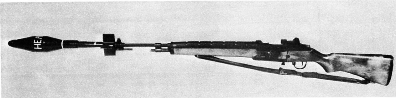 M31 HEAT rifle grenade attached to launcher on M14 assault rifle